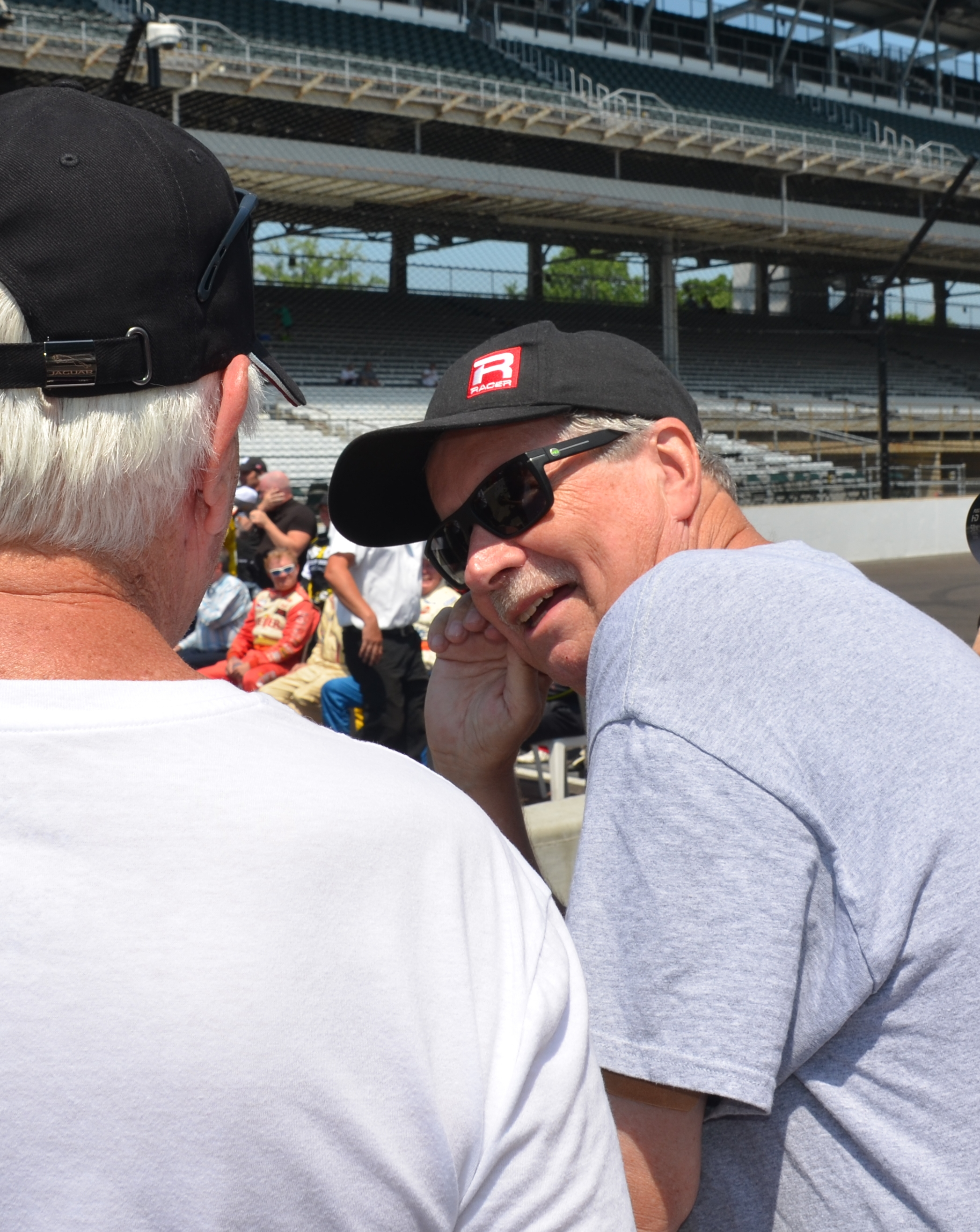 Journalist Robin Miller at the SVRA Brickyard Vintage Racing Invitational, Indianapolis Motor Speedway, 2018.